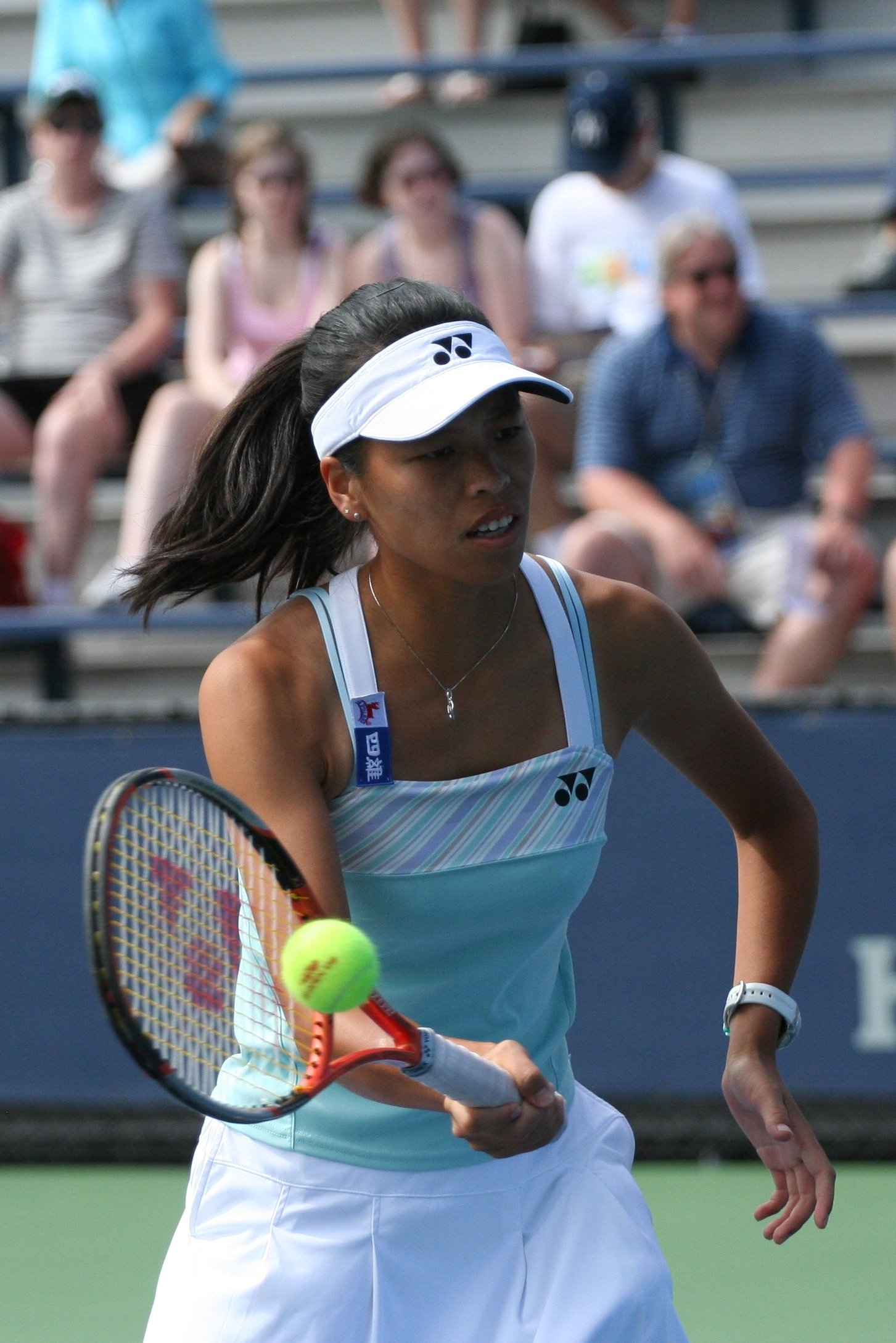 U.S. Open Friday, Sept. 4, 2009